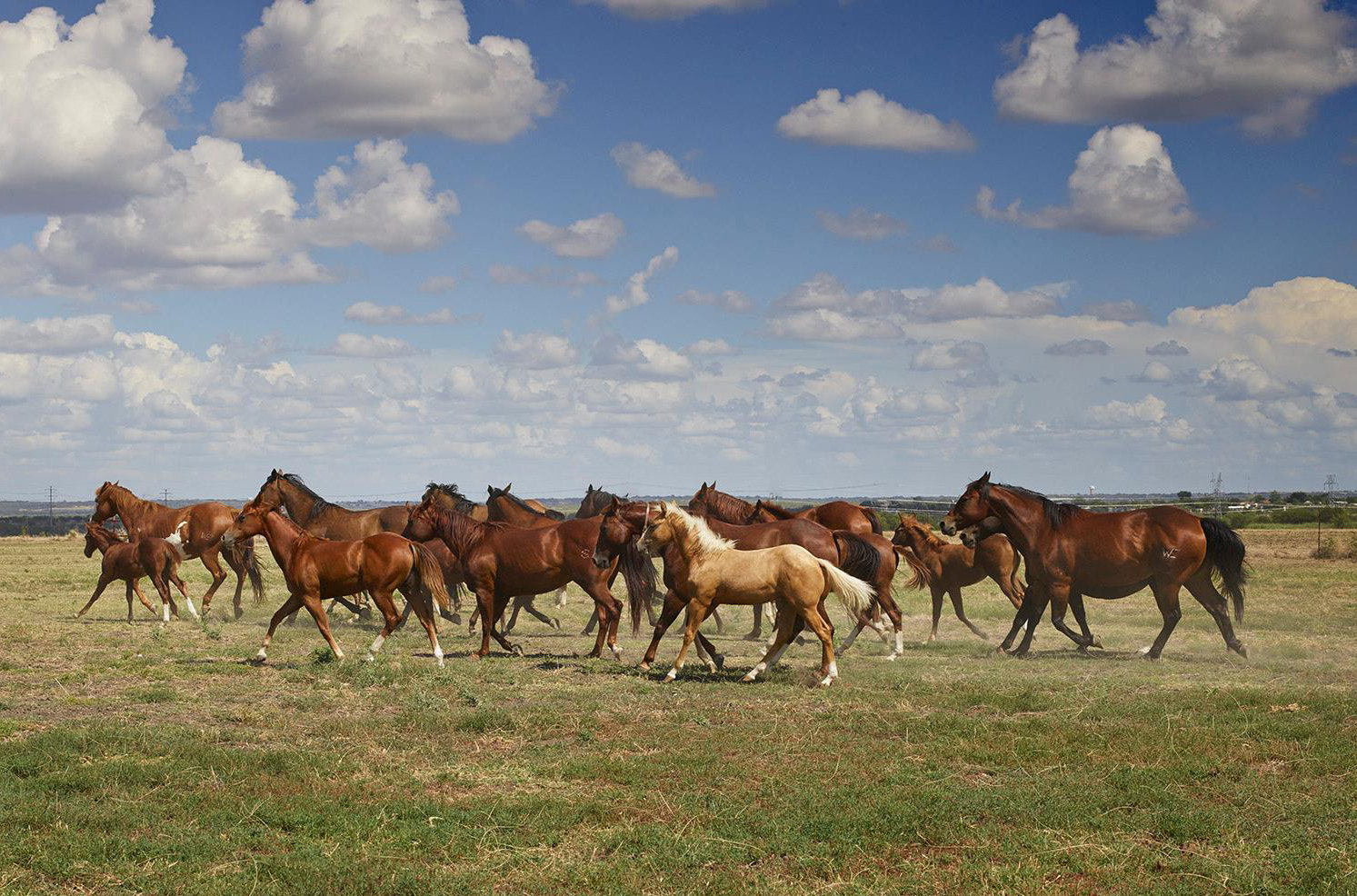 Horse jingle in rural Texas.